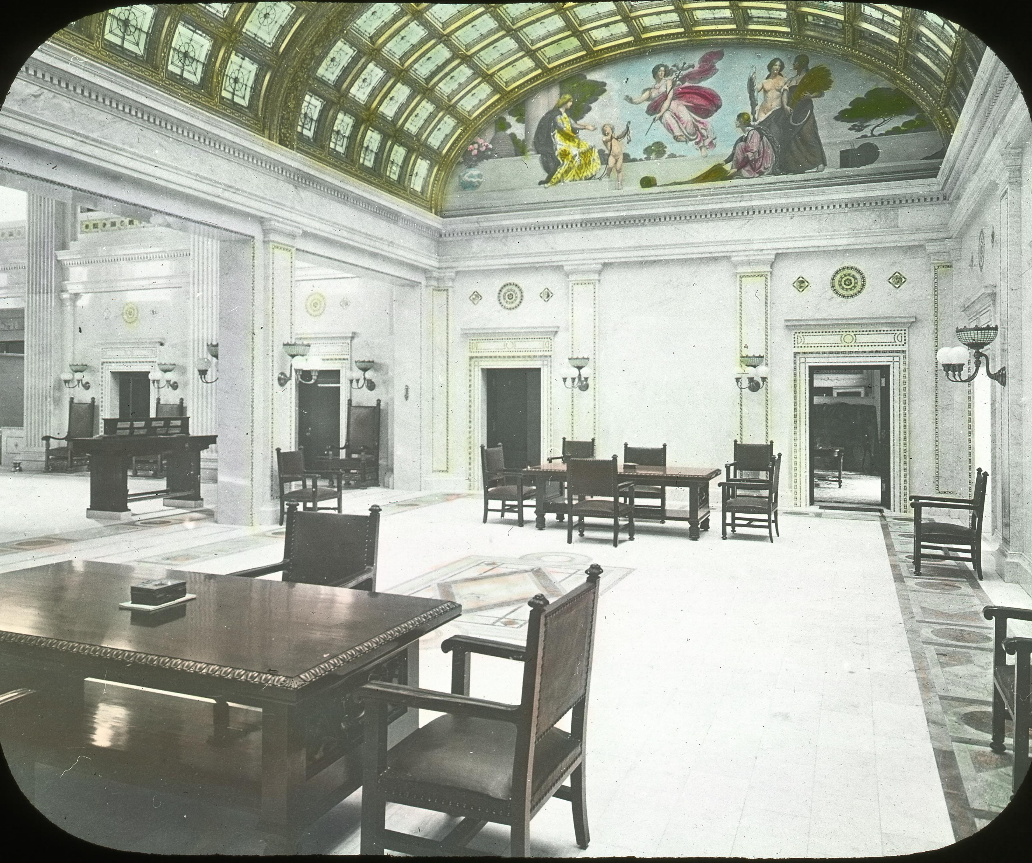 Looking at the south end of the lobby of the Citizens Savings and Trust Company, located at 850 Euclid Avenue, Cleveland, Ohio, in the United States. The building was completed in 1903. The structure and interiors were designed by the Cleveland-based architectural firm of Hubbell & Benes. The mural, "The Sources of Wealth", was finished in 1903 and is by Kenyon Cox. This lantern slide was created by the Edmondson Co. of Cleveland. It was made no earlier than 1903, and no later than 1914 (the year Edmondson Co. went out of business and was purchased by The Lehman-Hicks Co.)